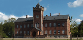 The main building of the mansion Gyldenholm seen from the yard